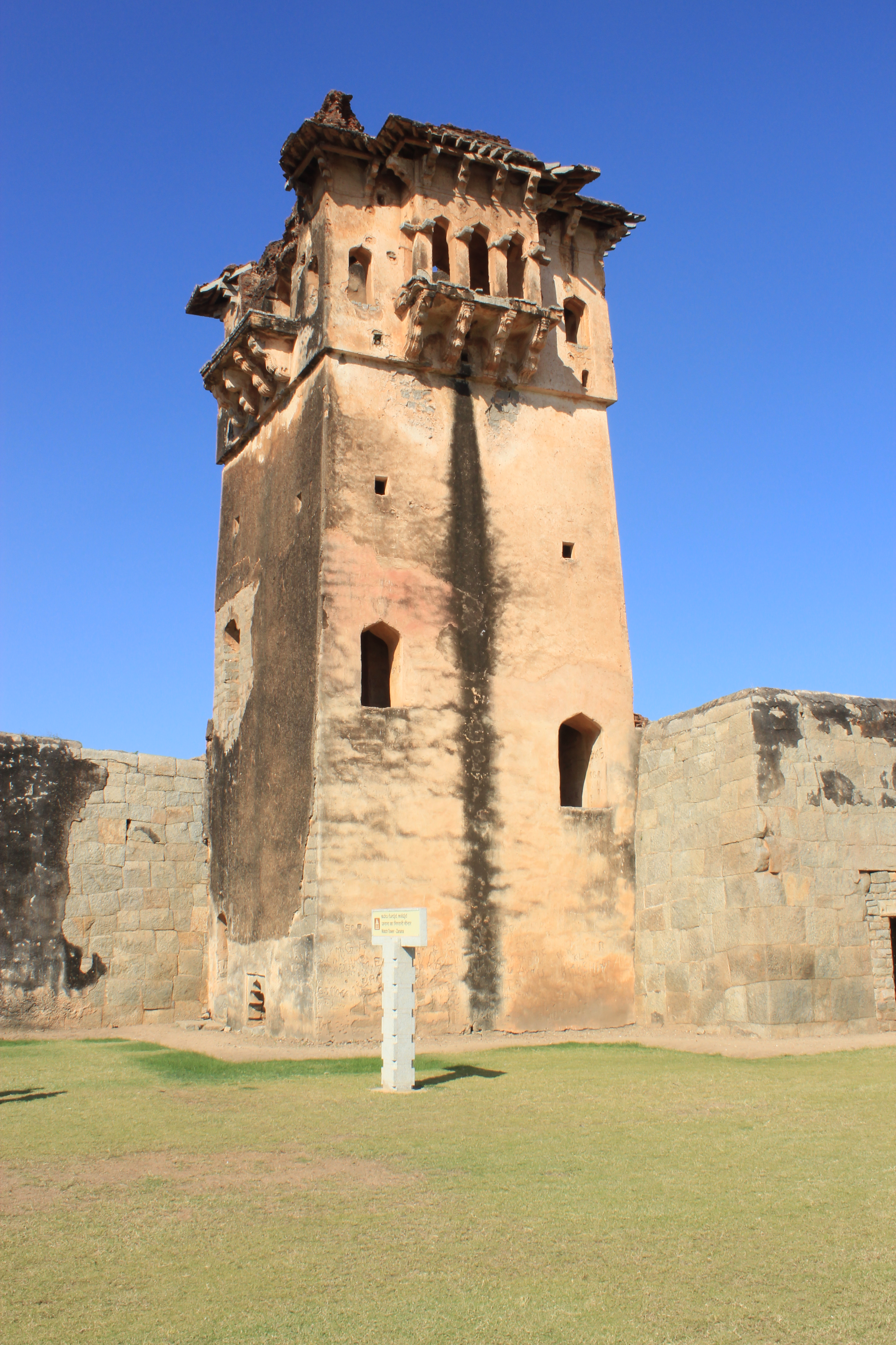 Guard watch tower